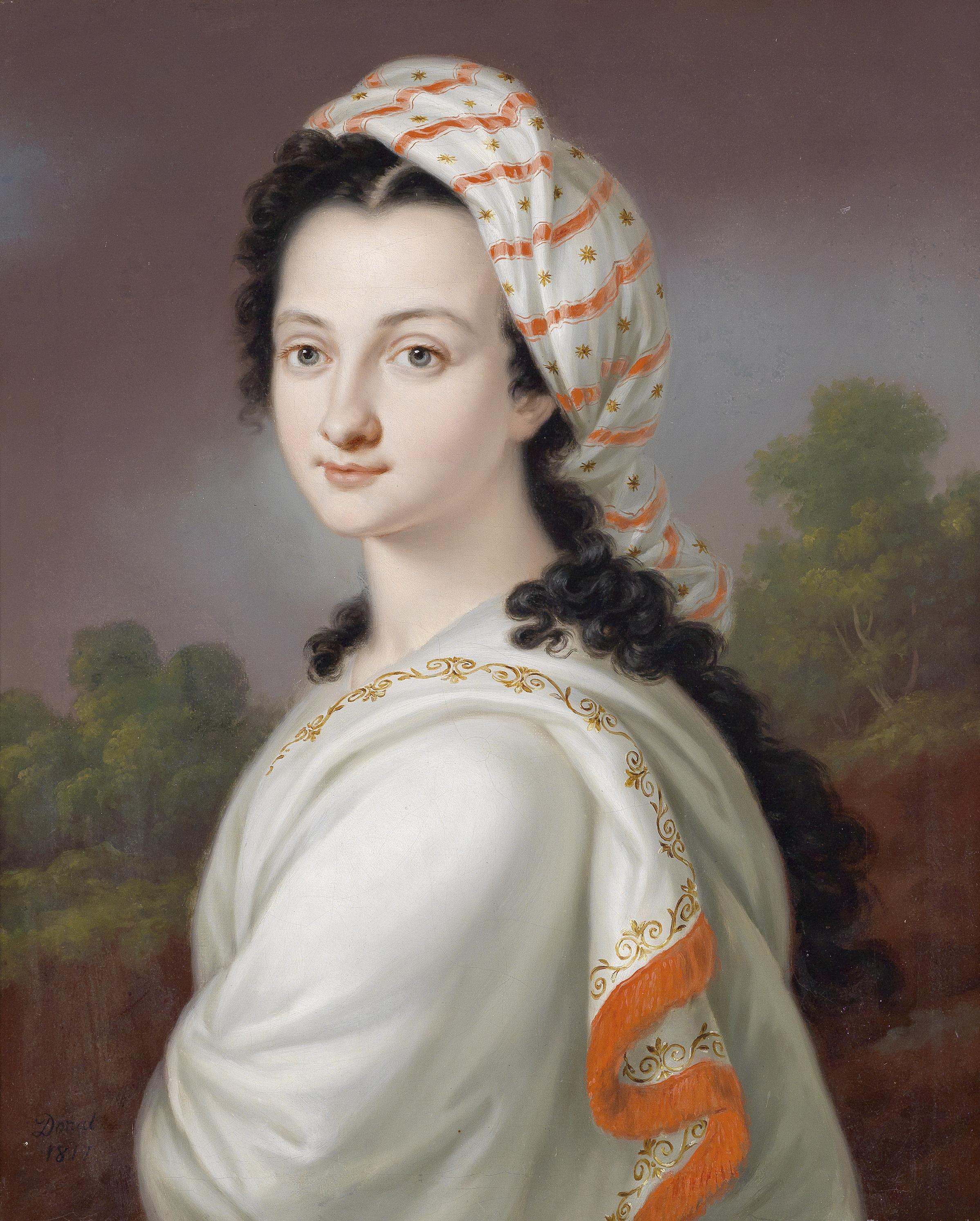 Caption verso